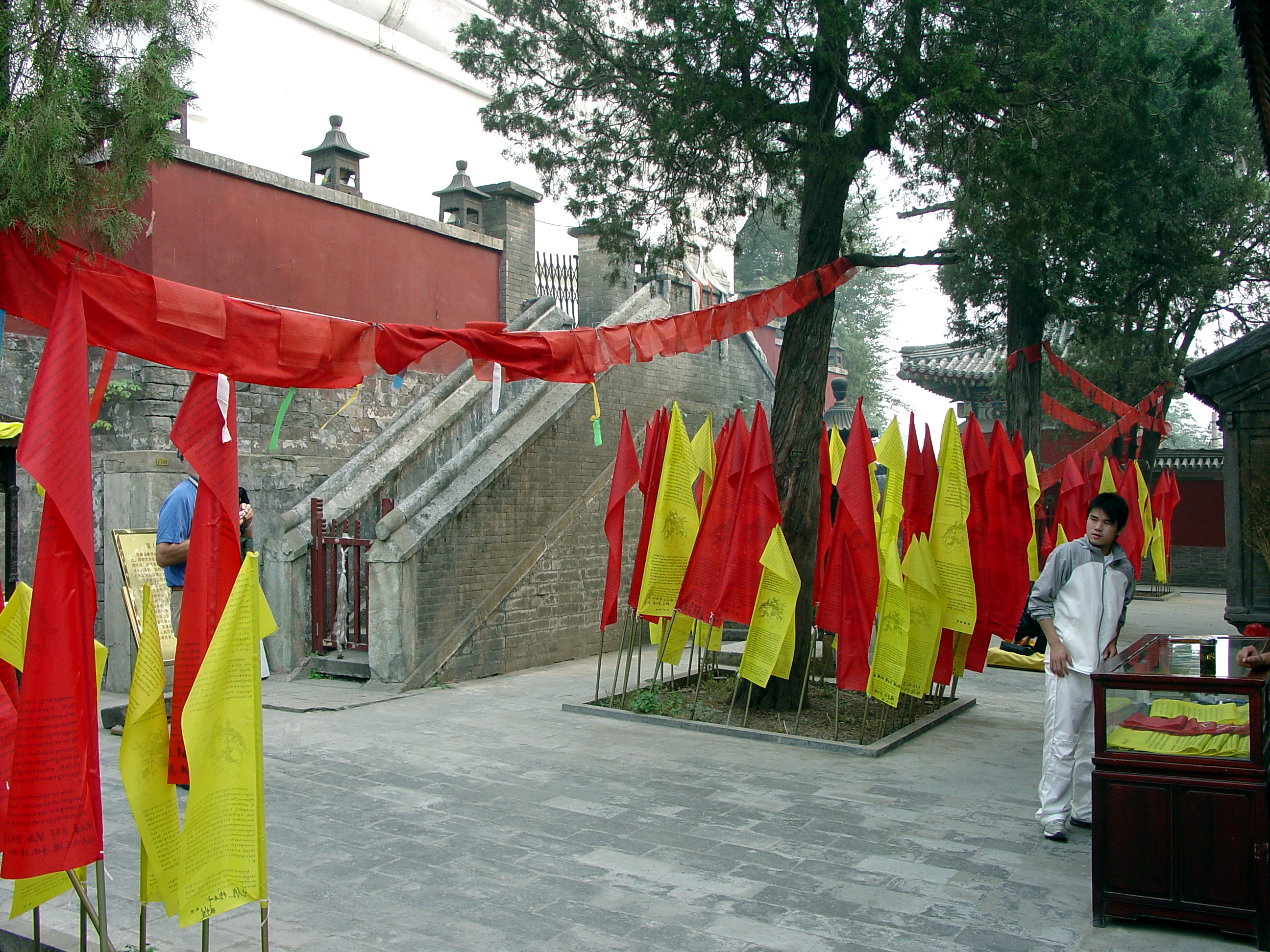 Prayer Flags. Bai Ta Si, Beijing